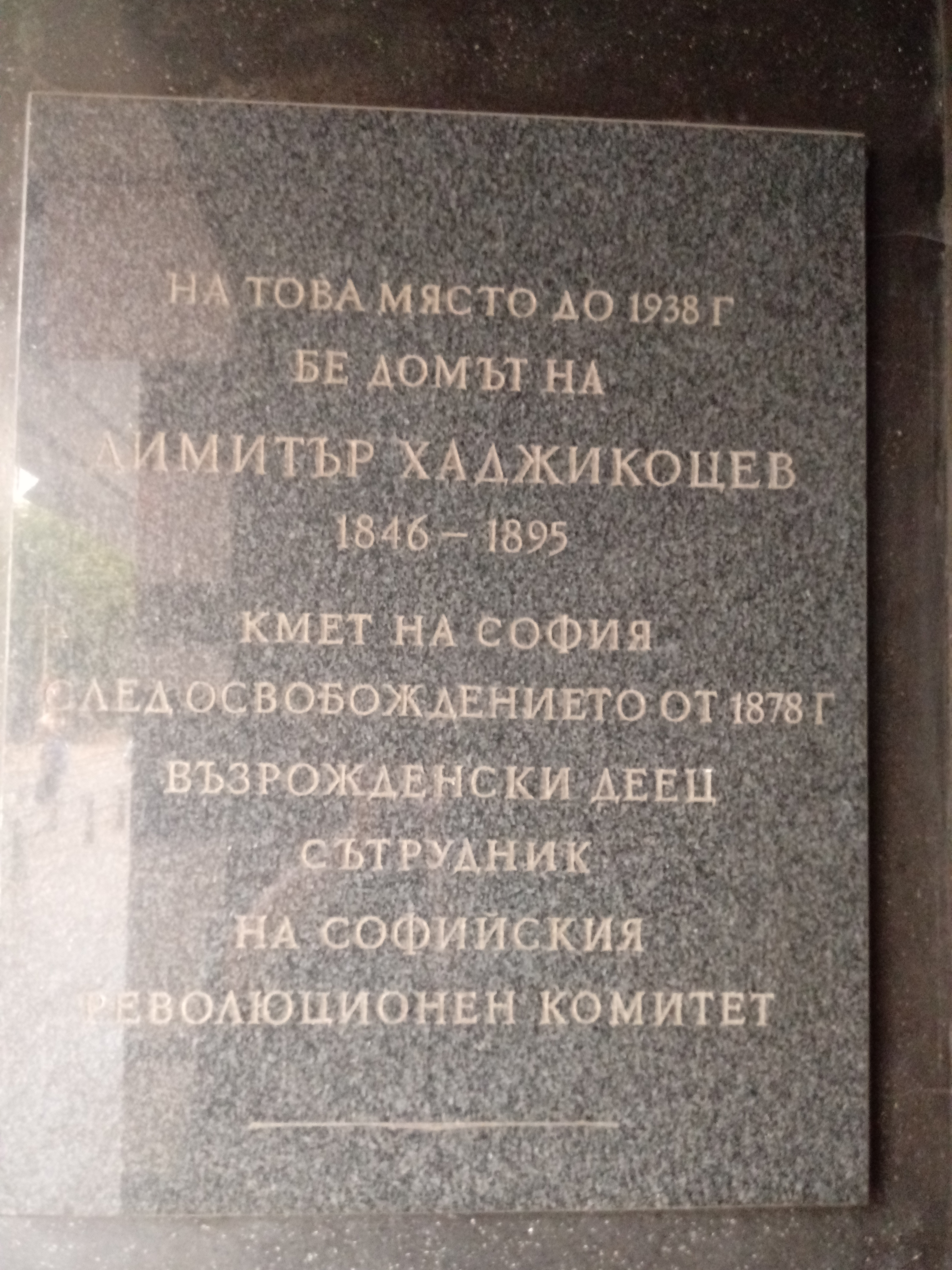 Memorial plaque of Dimitar Hadzhikotsev, mayor of Sofia in 1878 and 1883-1884